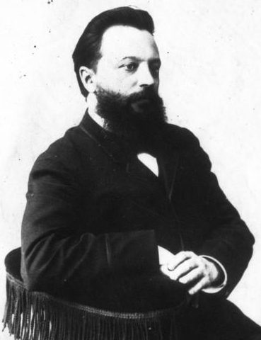 Russian chess player Mikhail Chigorin (1850-1908)